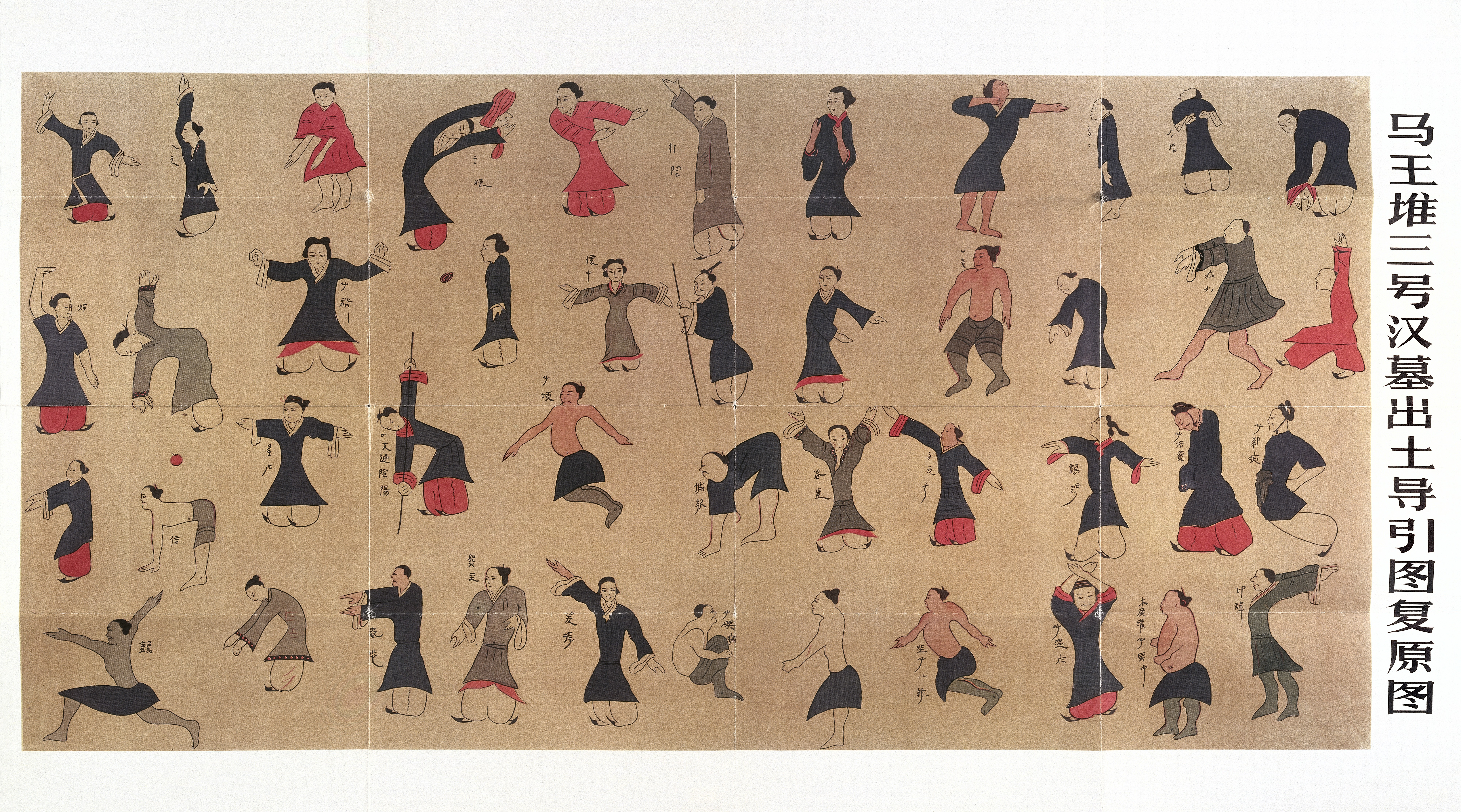 Daoyin tu - chart for leading and guiding people in exercise for improving health and treatment of pain, containing animal postures such as bear walk. This is a reconstruction of a 'Guiding and Pulling Chart' excavated from the Mawangdui Tomb 3 (sealed in 168BC) in the former kingdom of Changsha. The original is in the Hunan Provincial Museum, Changsha, China. Wellcome Images Keywords: Tai Chi; Chinese; Asian Continental Ancestry Group; Delivery of Health Care; Chinese Medicine; China; Healthcare; Exercise; Posture